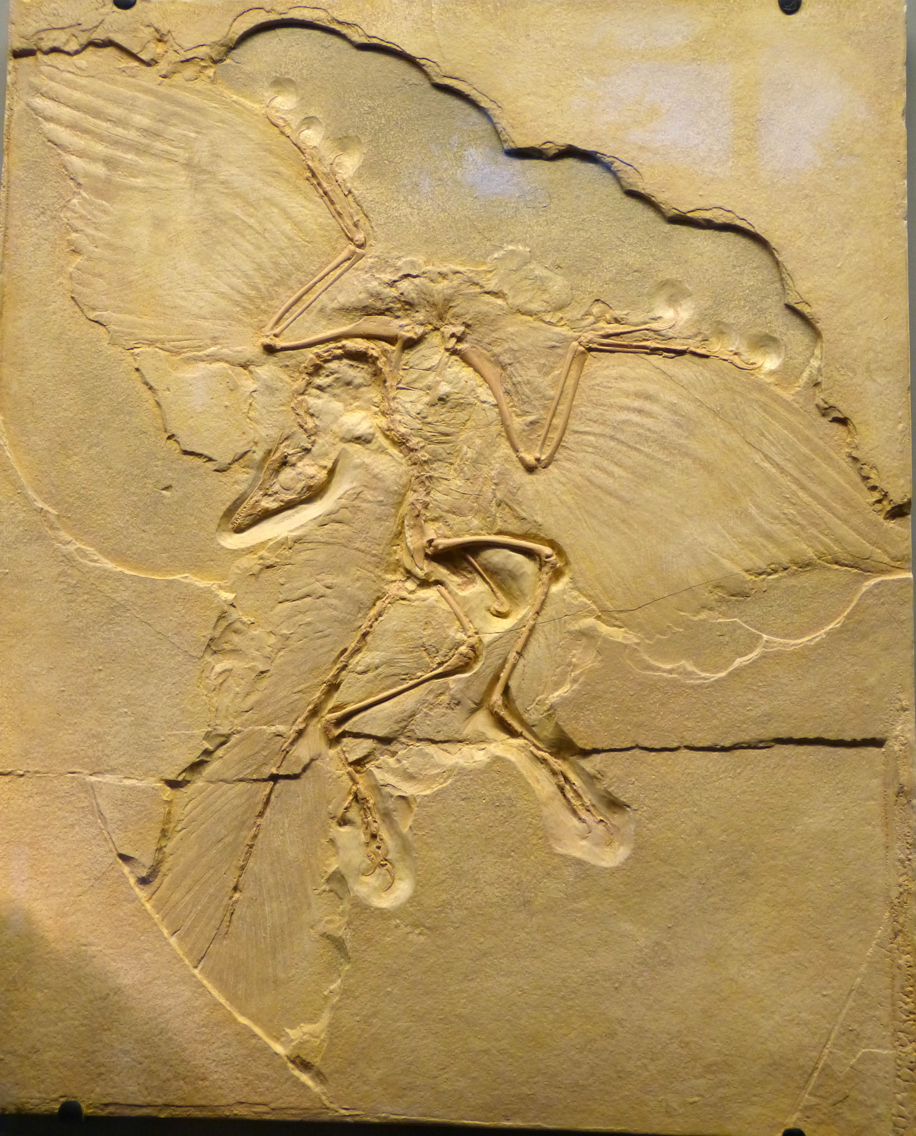 Natural History Museum, Vienna. Archaeopteryx lithographica fossil from Solnhofen (Germany).